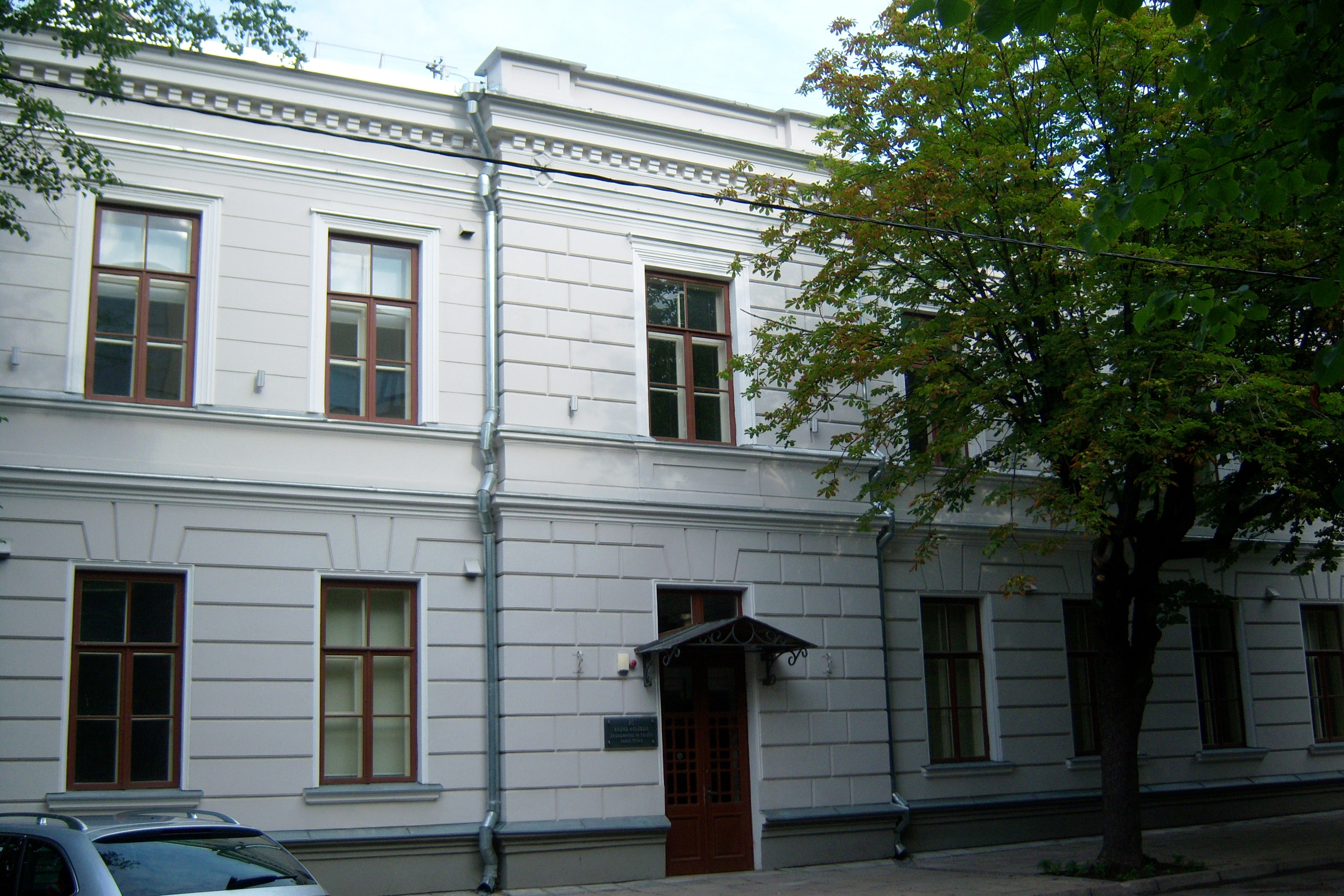 Kaunas College, Lithuania